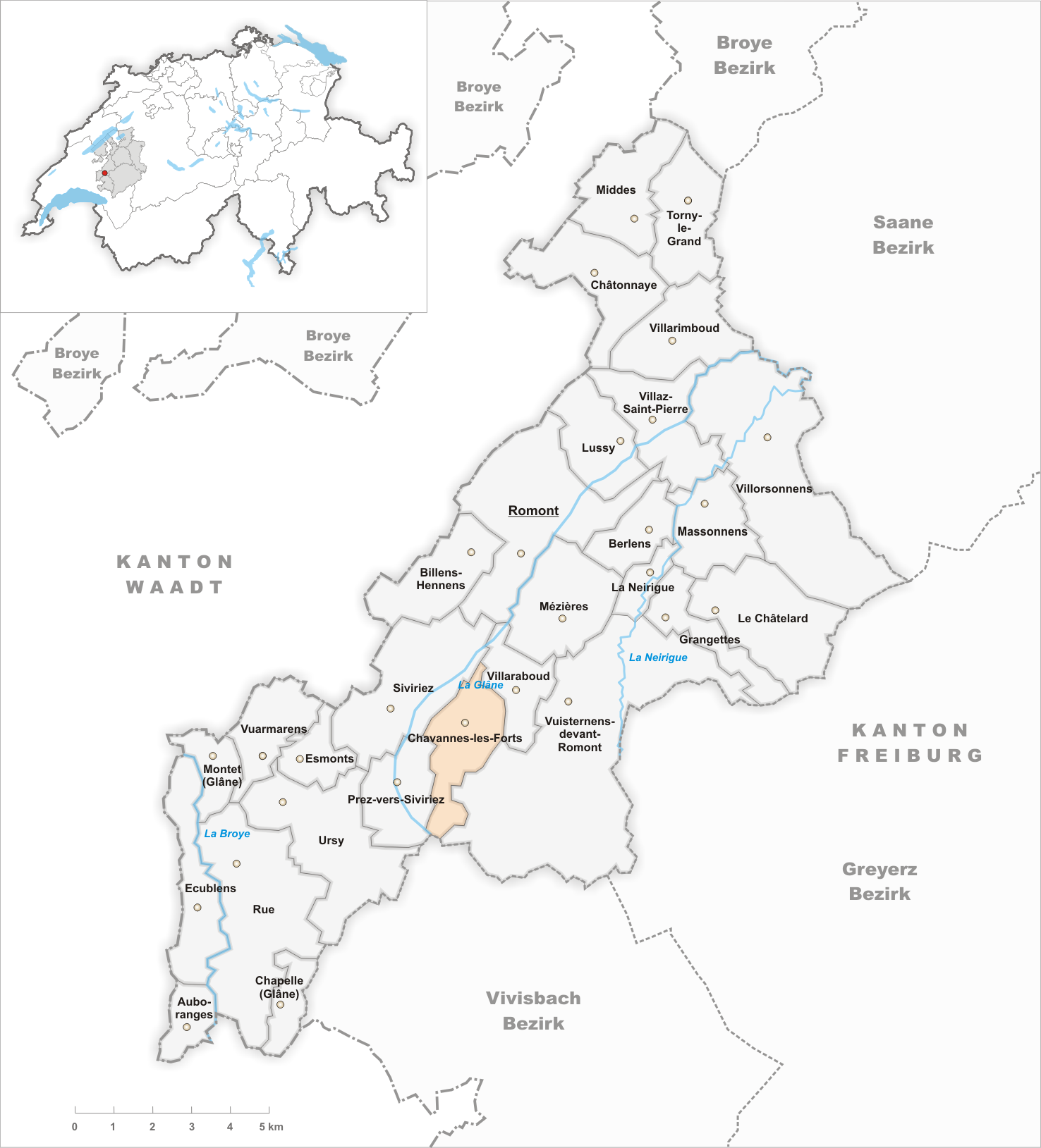 Municipality Chavannes-les-Forts Artist: Tschubby